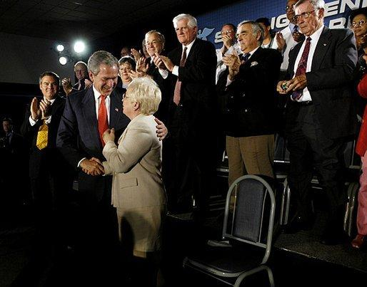 President George W. Bush greets Congresswoman Nancy Johnson after speaking to seniors about Medicare at New Britain General Hospital in New Britain, Conn., Thursday, June 12, 2003. White House photo by Eric Draper.